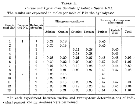 Chargaff results on salmon DNA